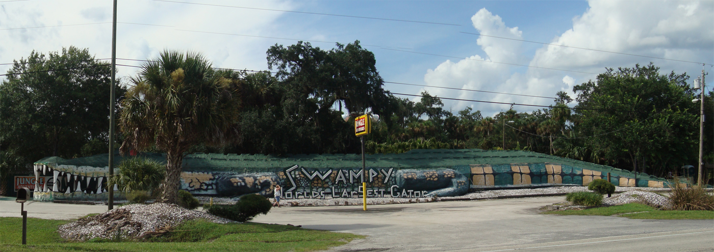 This is an image of "Swampy," the "World's Largest Gator"